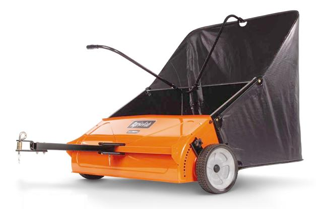 Agri-Fab Smartsweep